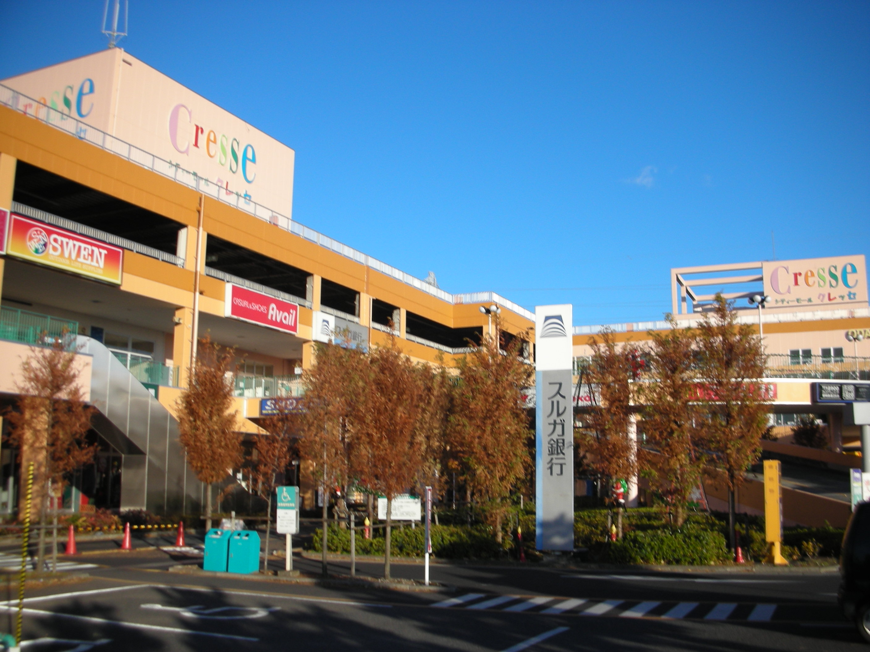 Cresse Odawara.JPG